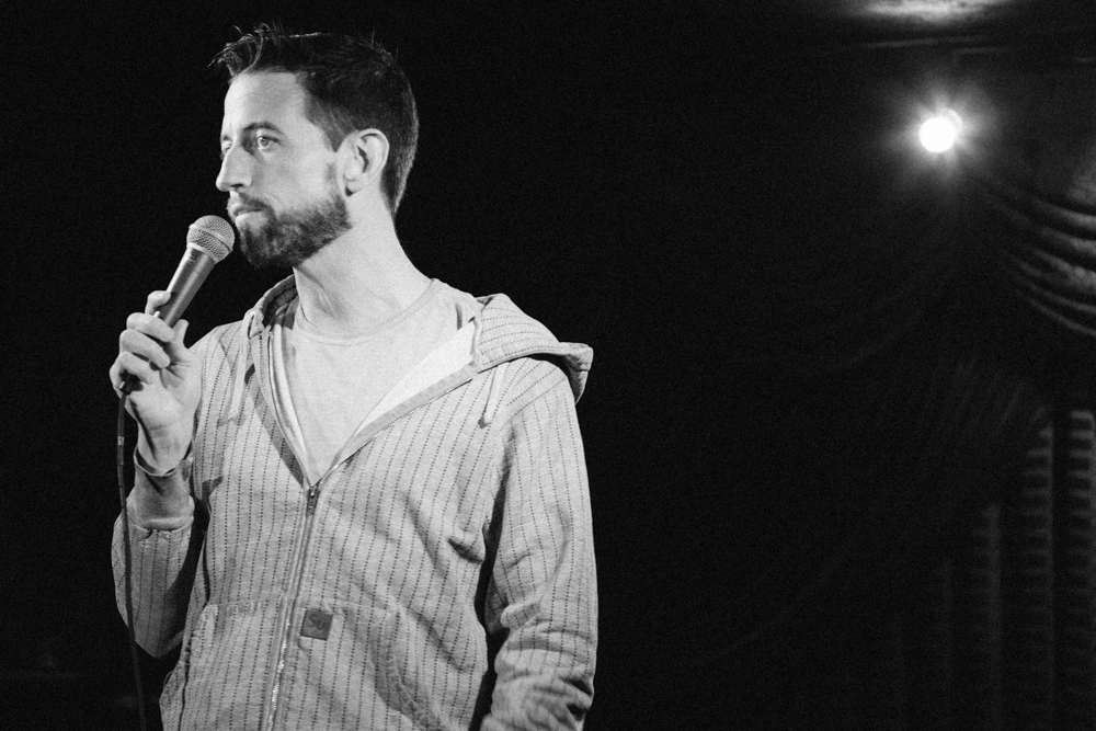 Neal Brennan at The Del Monte Speakeasy at Townhouse Venice - Los Angeles, CA April 2nd, 2013